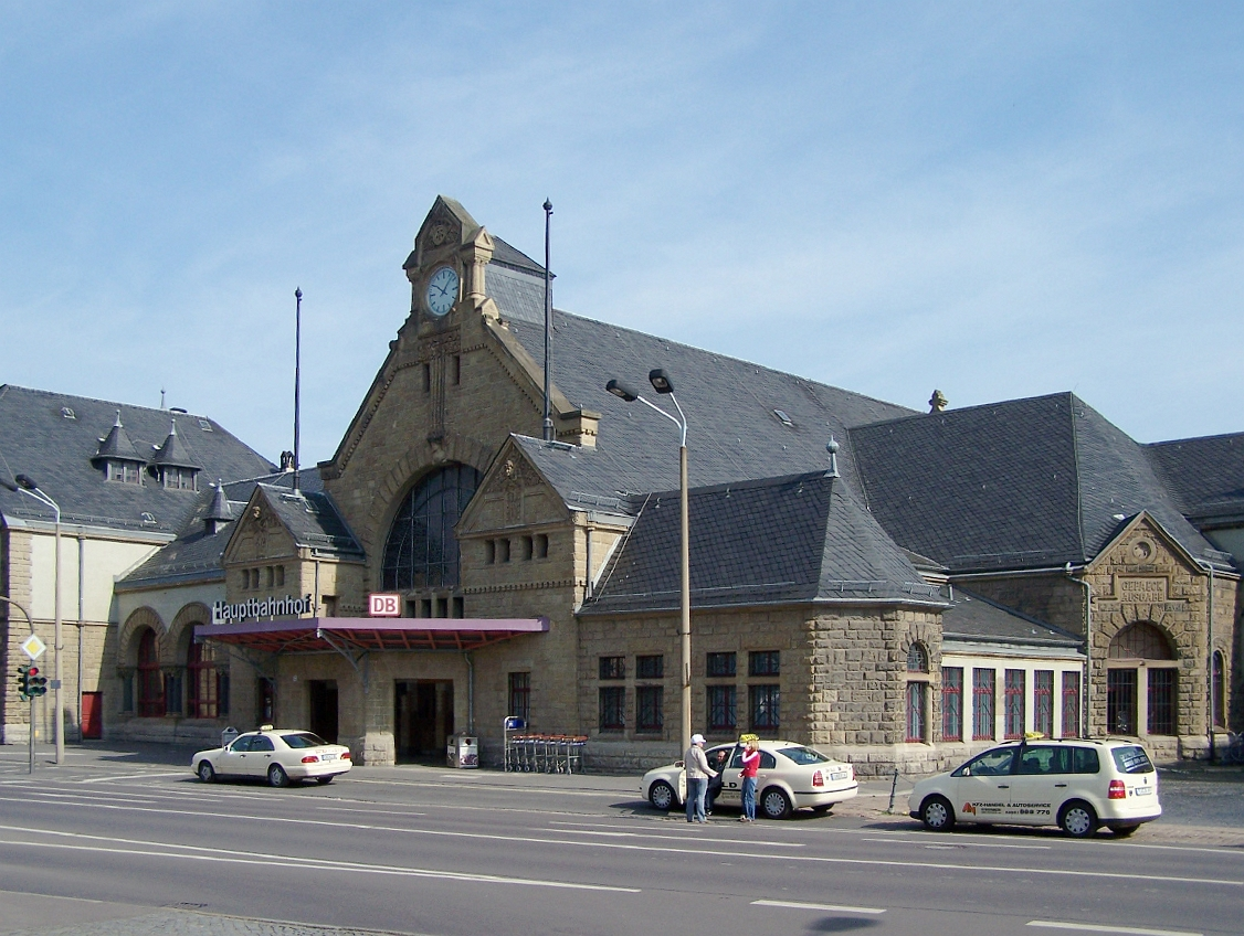 The Station in Eisenach.